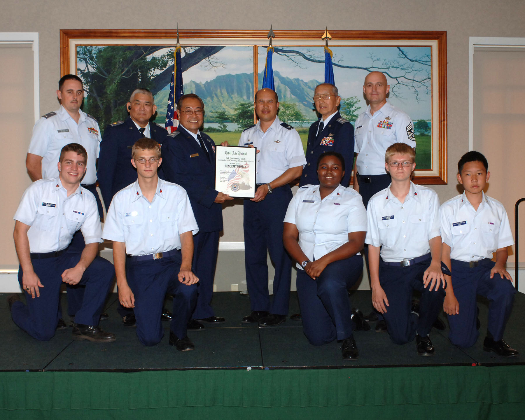 8/11/2009 - Hawaii Wing, Civil Air Patrol, conferred the "Honorary CAP Membership," signed by CAP National Commander, Major General Amy Courter to Colonel Giovanni Tuck, 15th Airlift Wing commander, for his outstanding support and assistance to the Civil Air Patrol at the Enlisted Club here July 31. Standing (L-R) are 1st Lt. Nathan Stickel, Maj. Steve Soeda, Col. Stan Fernandez, Col. Giovanni Tuck, Col. Herbert Kaneshige, and Command Chief Master Sgt. Craig Recker . Kneeling (L to R) are HCAP cadets Joel Ramey, Corey Trask, Imani Scott, Zechariah Trask, Kevin Cho. (U.S. Air Force photo/ Oscar A. Hernandez)